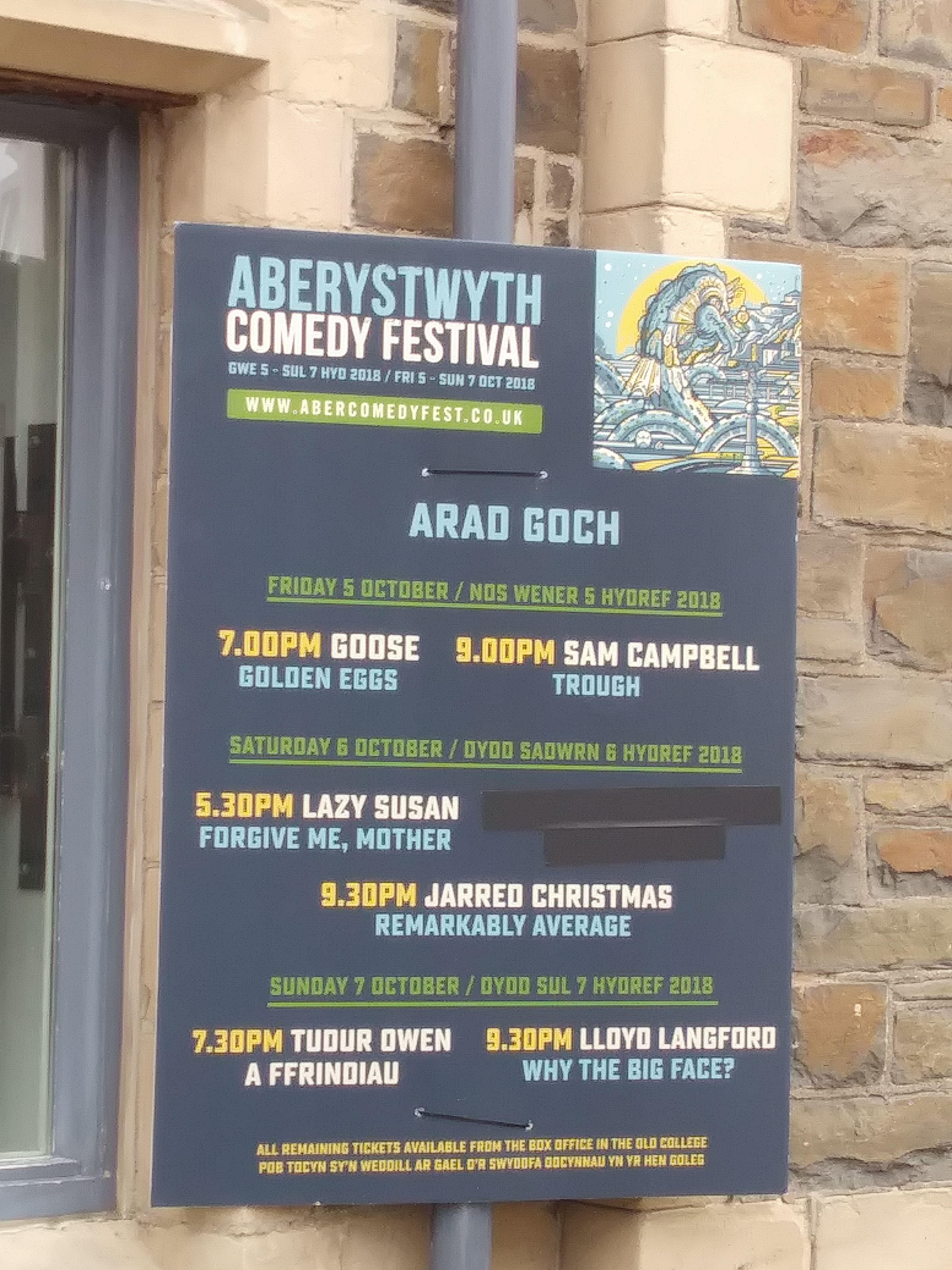 Aberystwyth Comedi Festival 2018 poster outside Arad Goch, Bath St, Aberystwyth